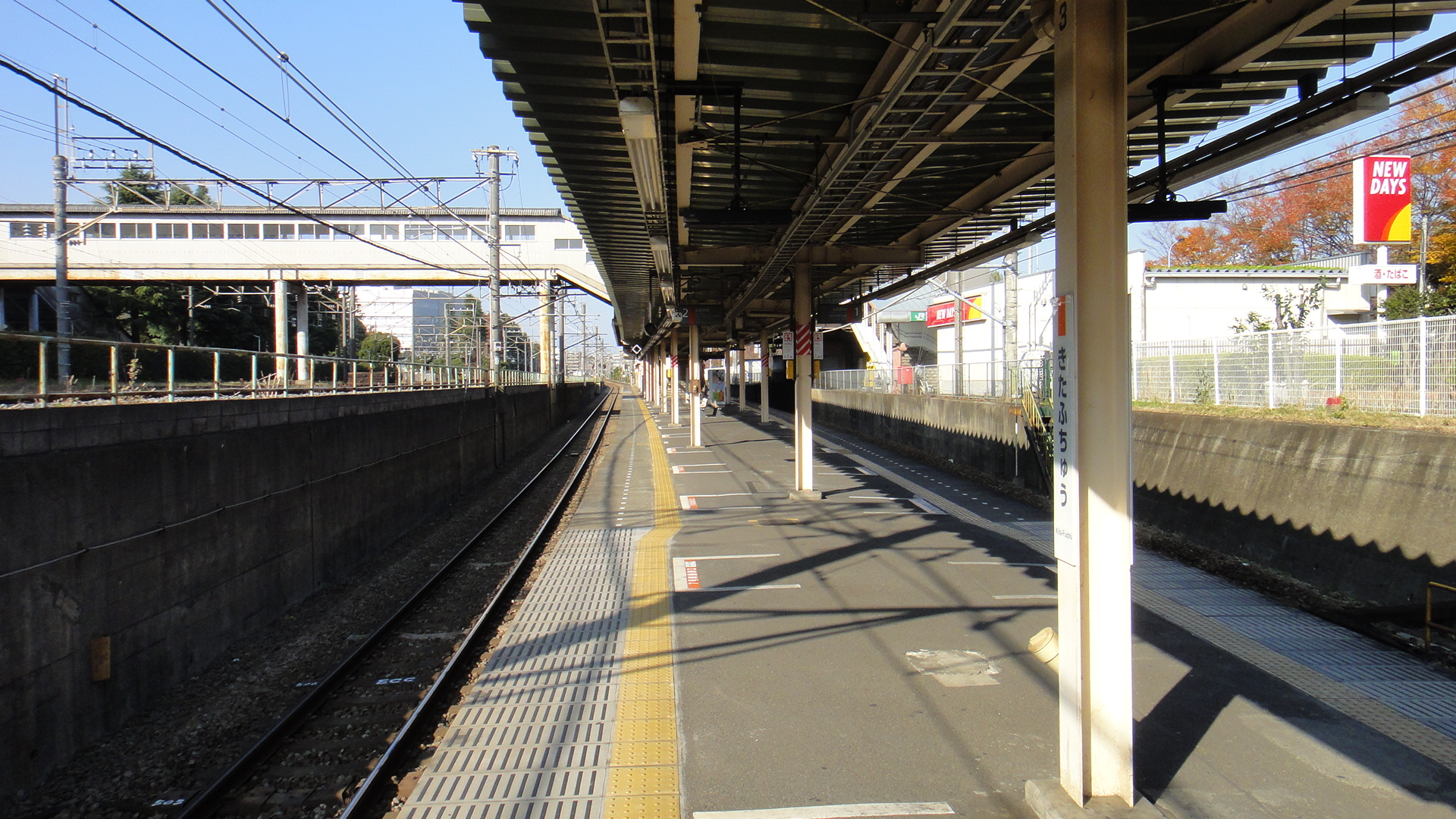 The platform looking north at Kita-Fuchu Station on the Musashino Line in Tokyo, Japan